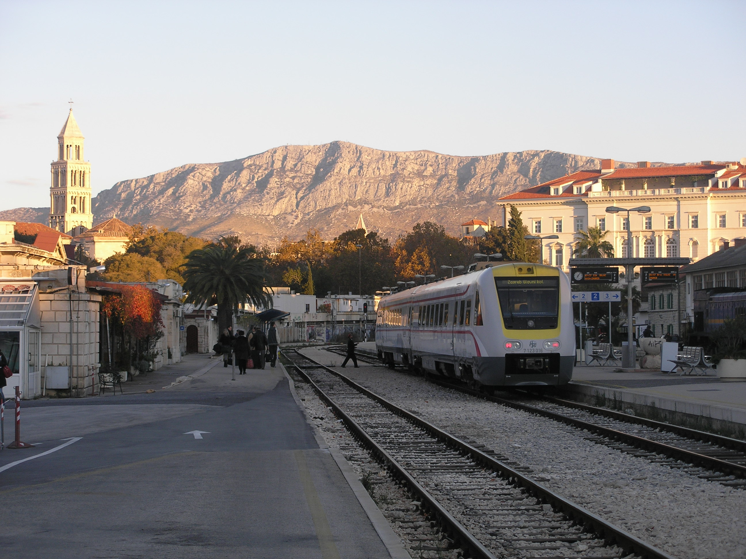 Split railway station, Croatia